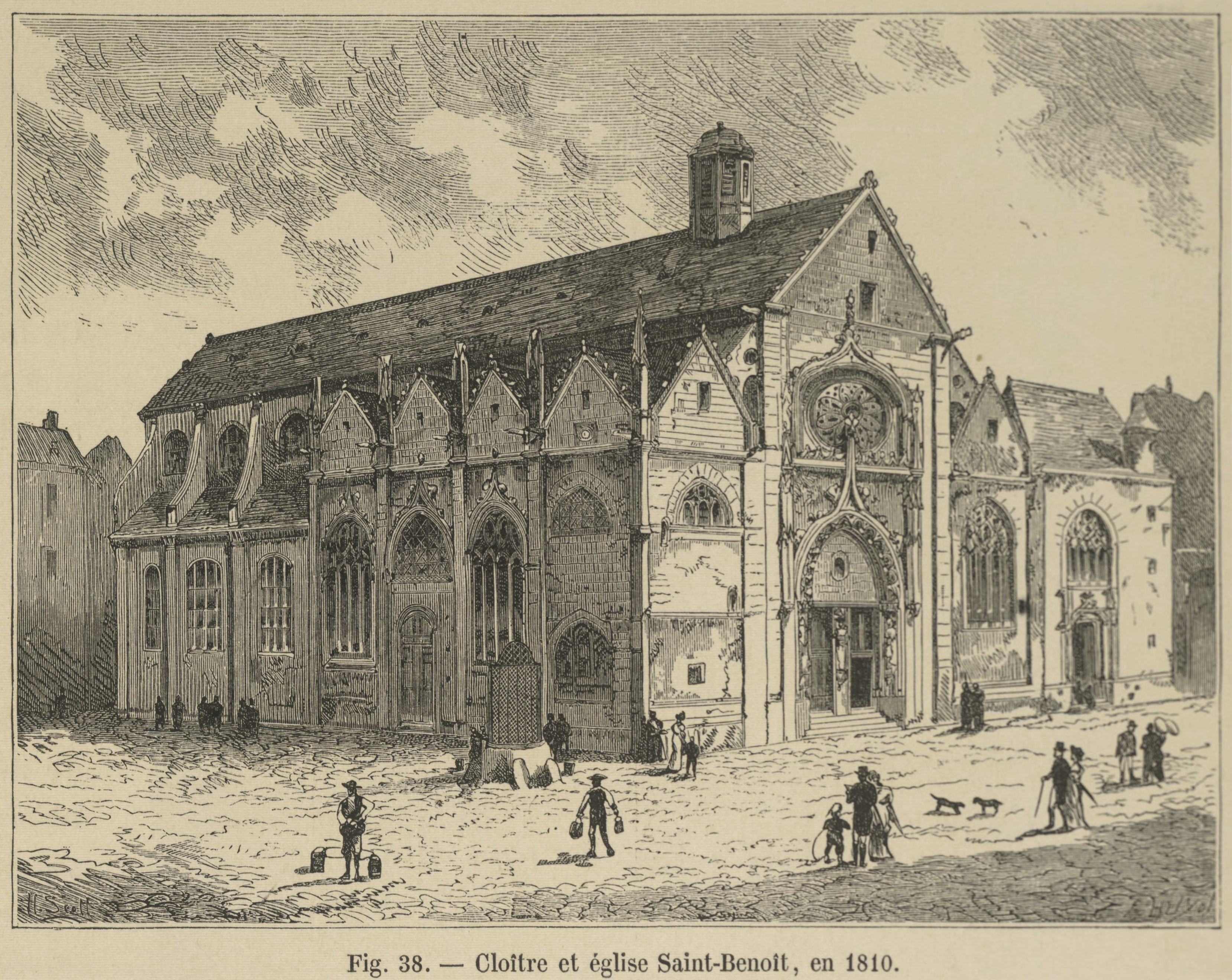 The Saint-Benoît church was located in the Latin Quarter, and was one of Paris's oldest churches, dating back to the Middle Ages. Throughout the centuries, it was used as a site for religious worship as well as public entertainment, as various plays were performed on its premises. It was demolished in the early 19th century.